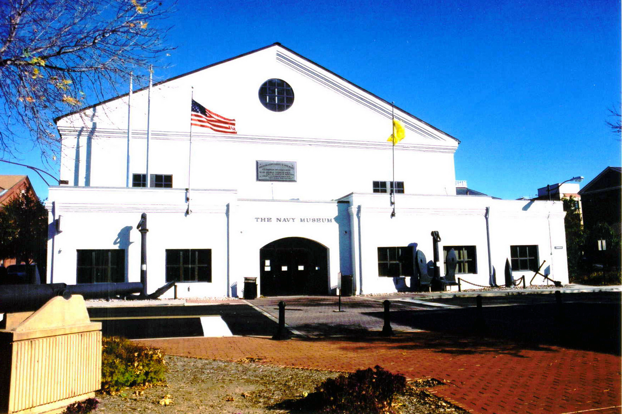 Washington Navy Yard (Apr. 21, 2003) -- The Navy Museum is celebrating its 40th anniversary and the legacy of past naval museums with a new exhibit called, “Spanning Three Centuries: Museums on the Washington Navy Yard.” This anniversary exhibit highlights images and artifacts from the Navy’s original collection and its early museums. As the largest museum to chronicle the history of the U.S. Navy from its creation to the present, the modern Navy Museum continues to embody founder Adm. Arleigh Burke’s vision of sharing the Navy’s history and traditions with the world. U.S. Navy photo. (RELEASED)